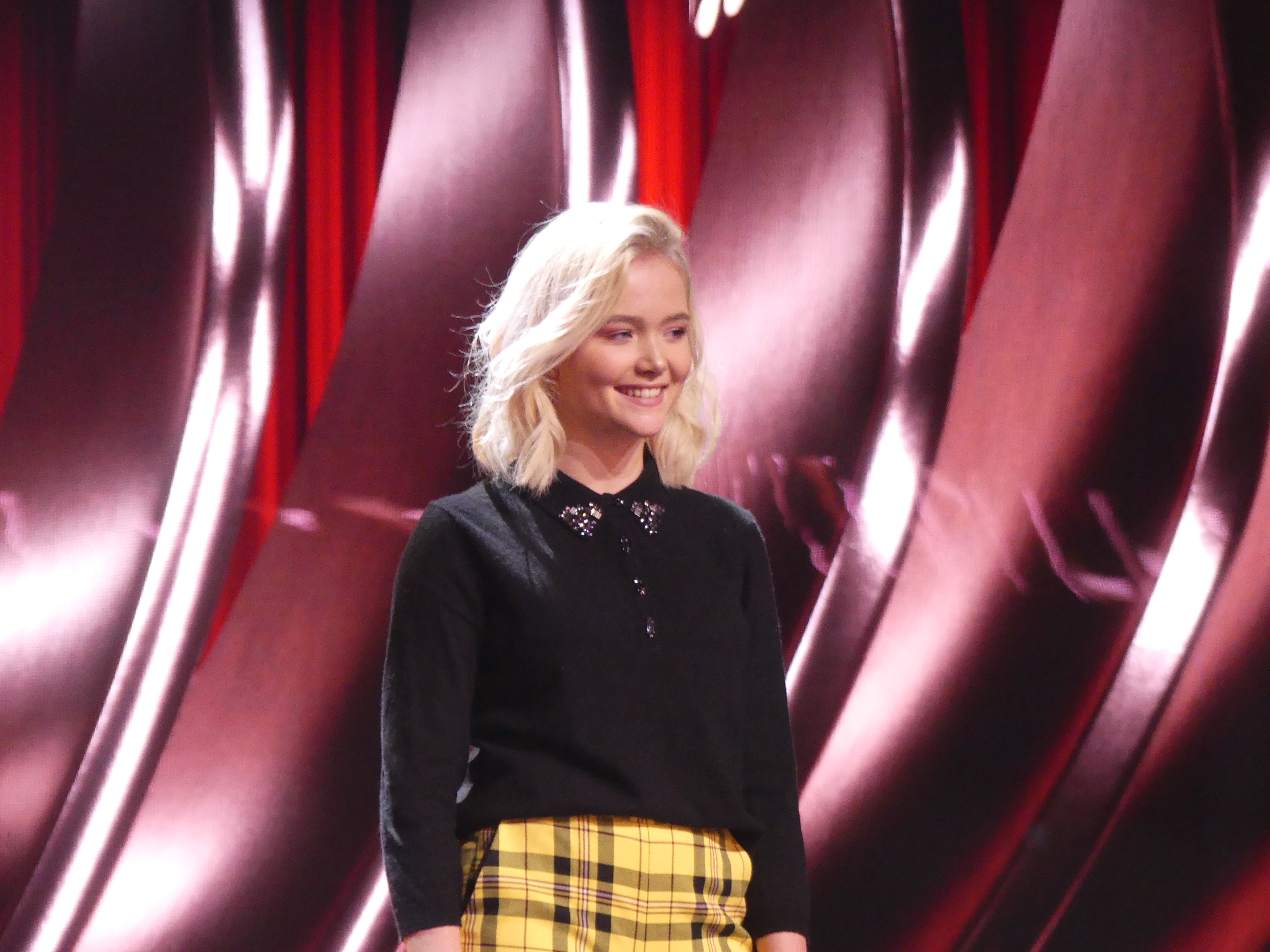 Melodifestivalen 2019, part contest 2, Malmö, Sweden